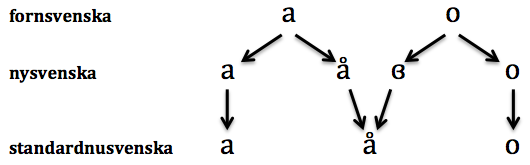 Reduction of Swedish vowel phonemes from ten to nine.